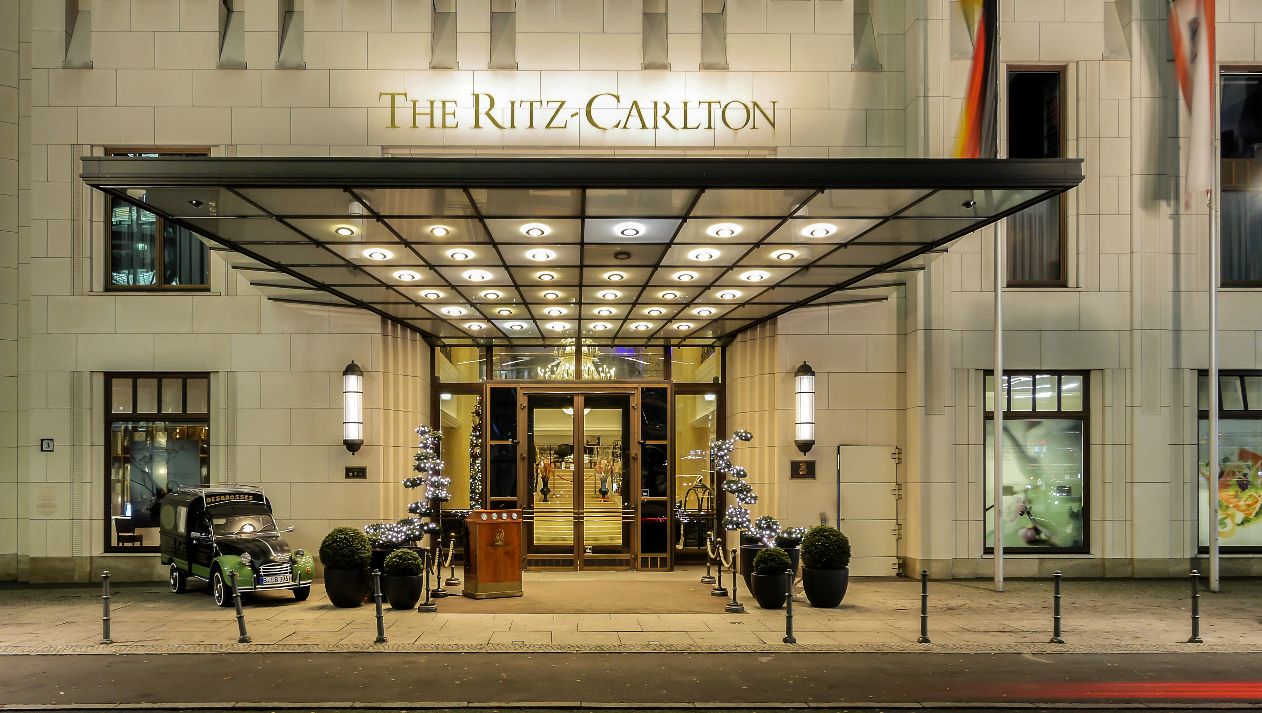 Entrance area The Ritz-Carlton Berlin 2